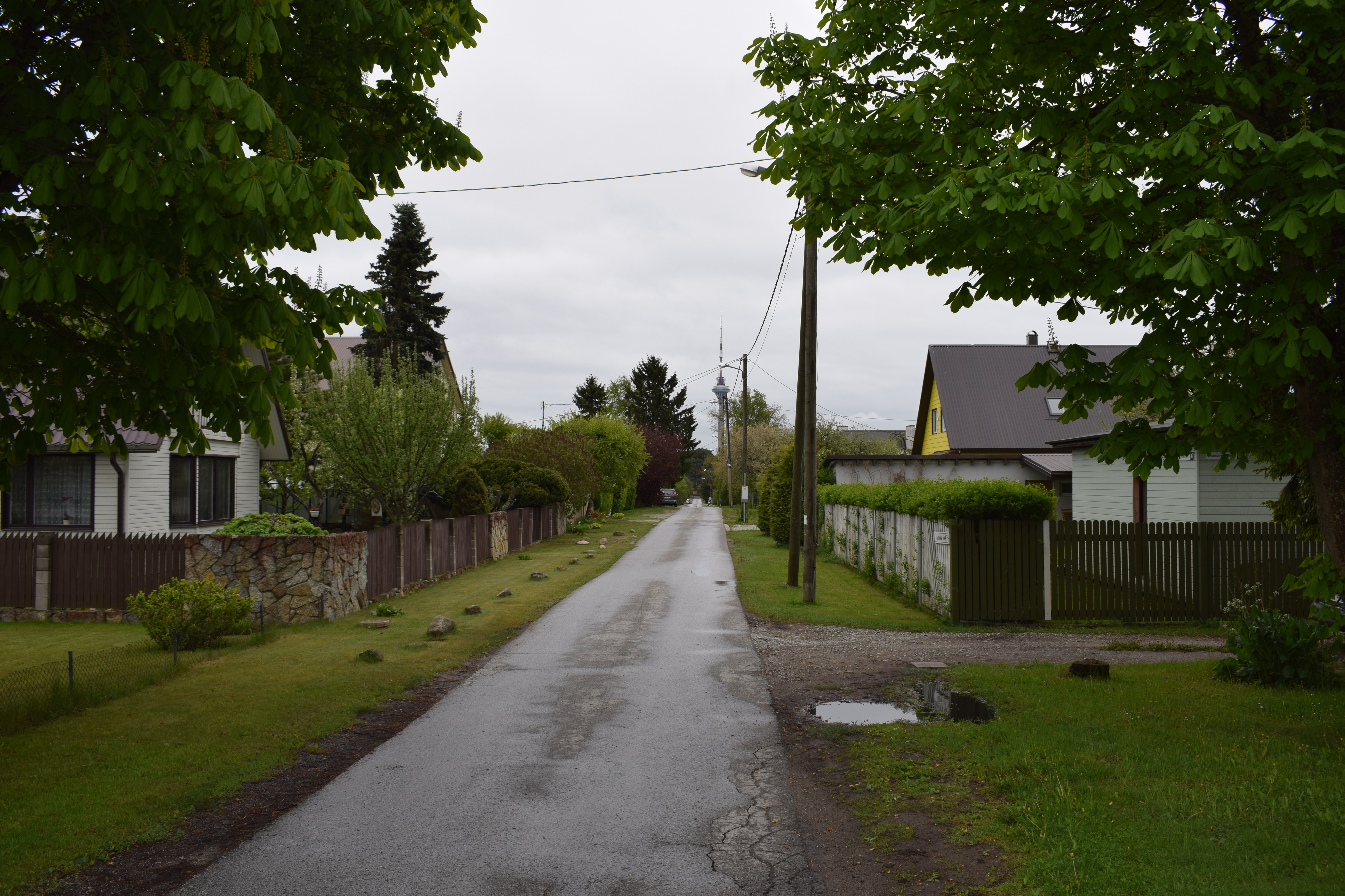 Arnika road